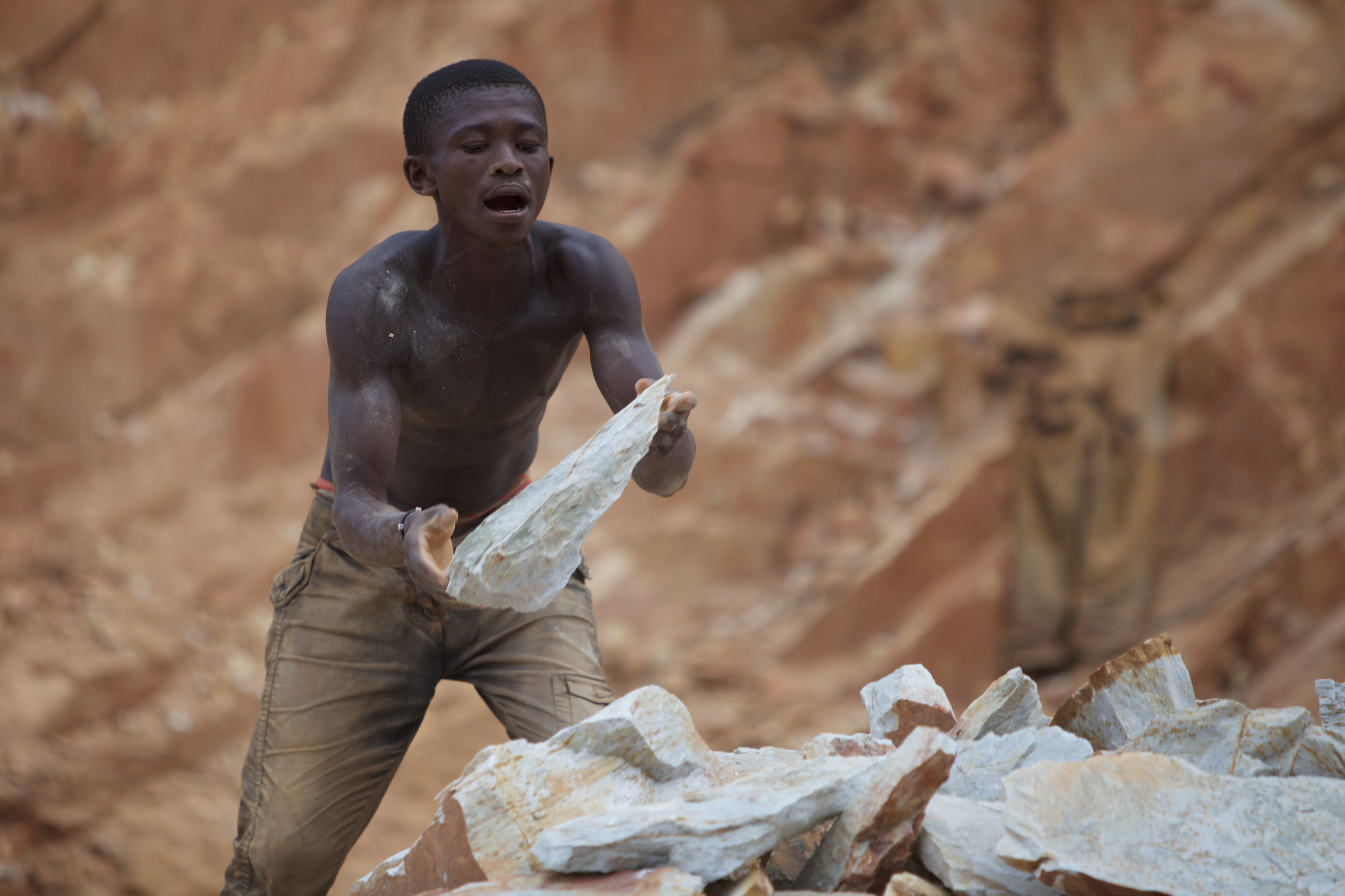 This is an image of "African people at work" from Central African Republic